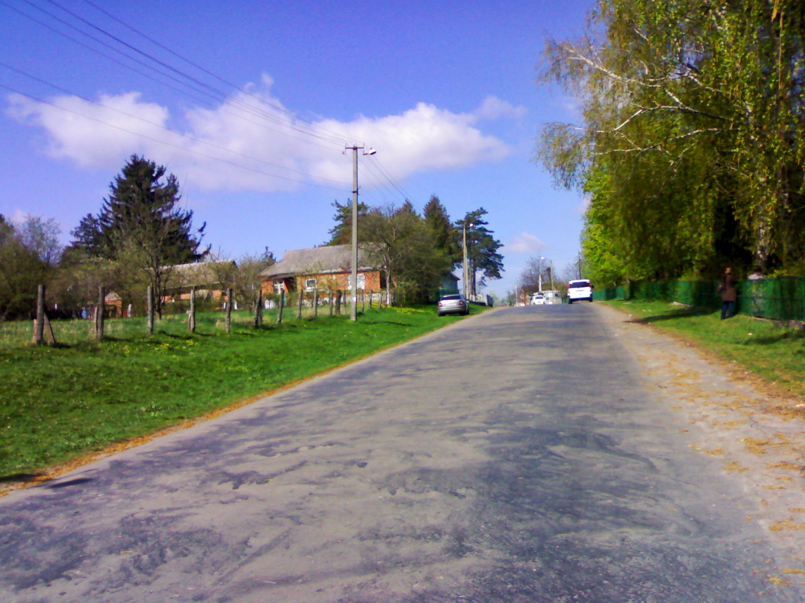 Gavryshka street in Davidkivtsi